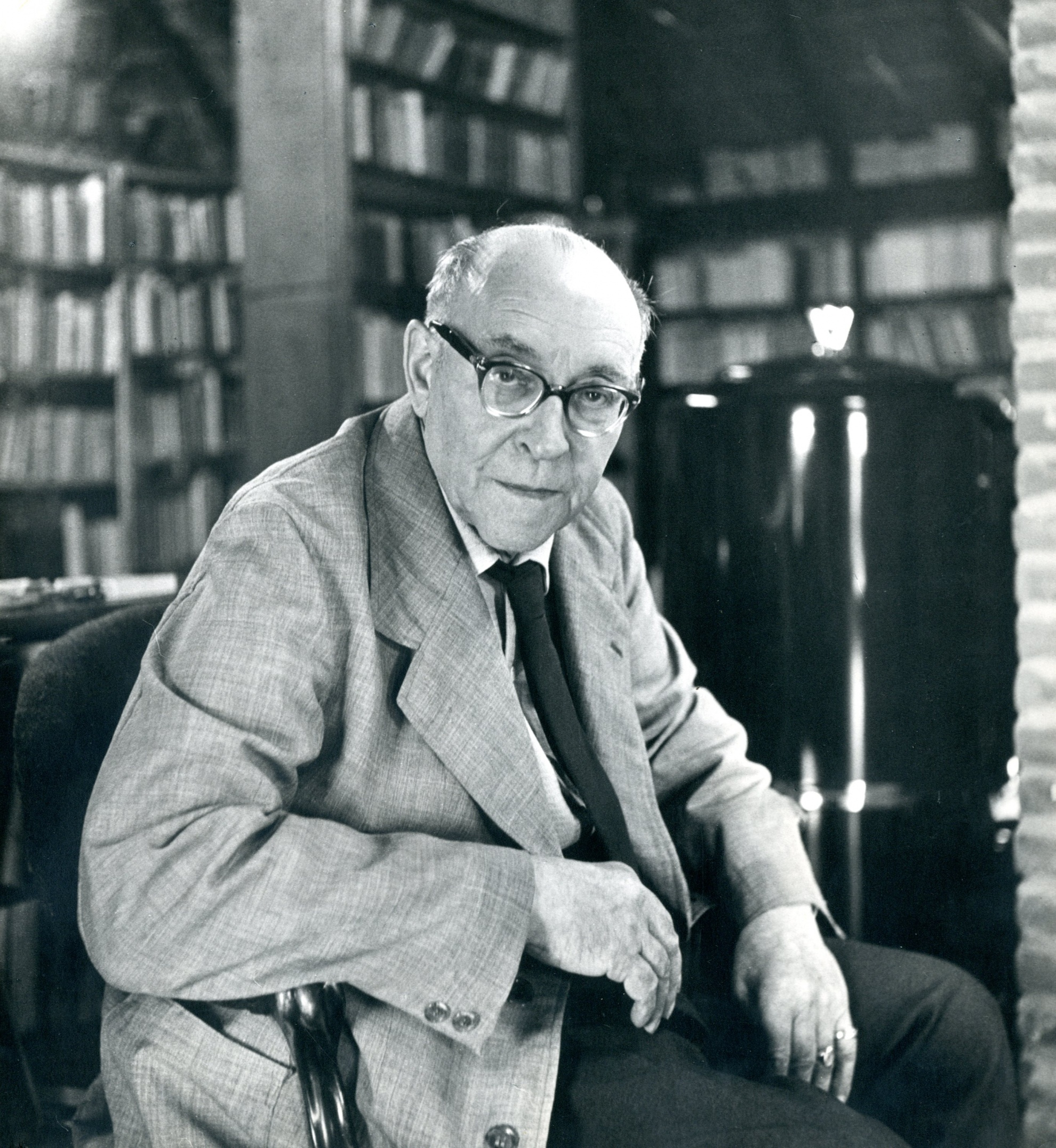 Dutch poet J.C. Bloem (1887-1966) in his study room (1933?)